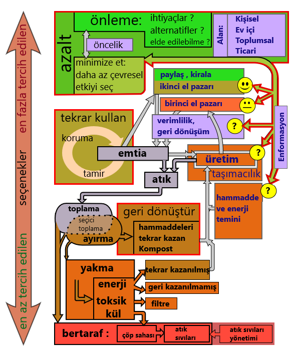 Turkish Translation of the file, Waste hierarchy rect by Jmarchn